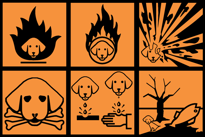 Dog hazards symbols, for use on Uncyclopedia.